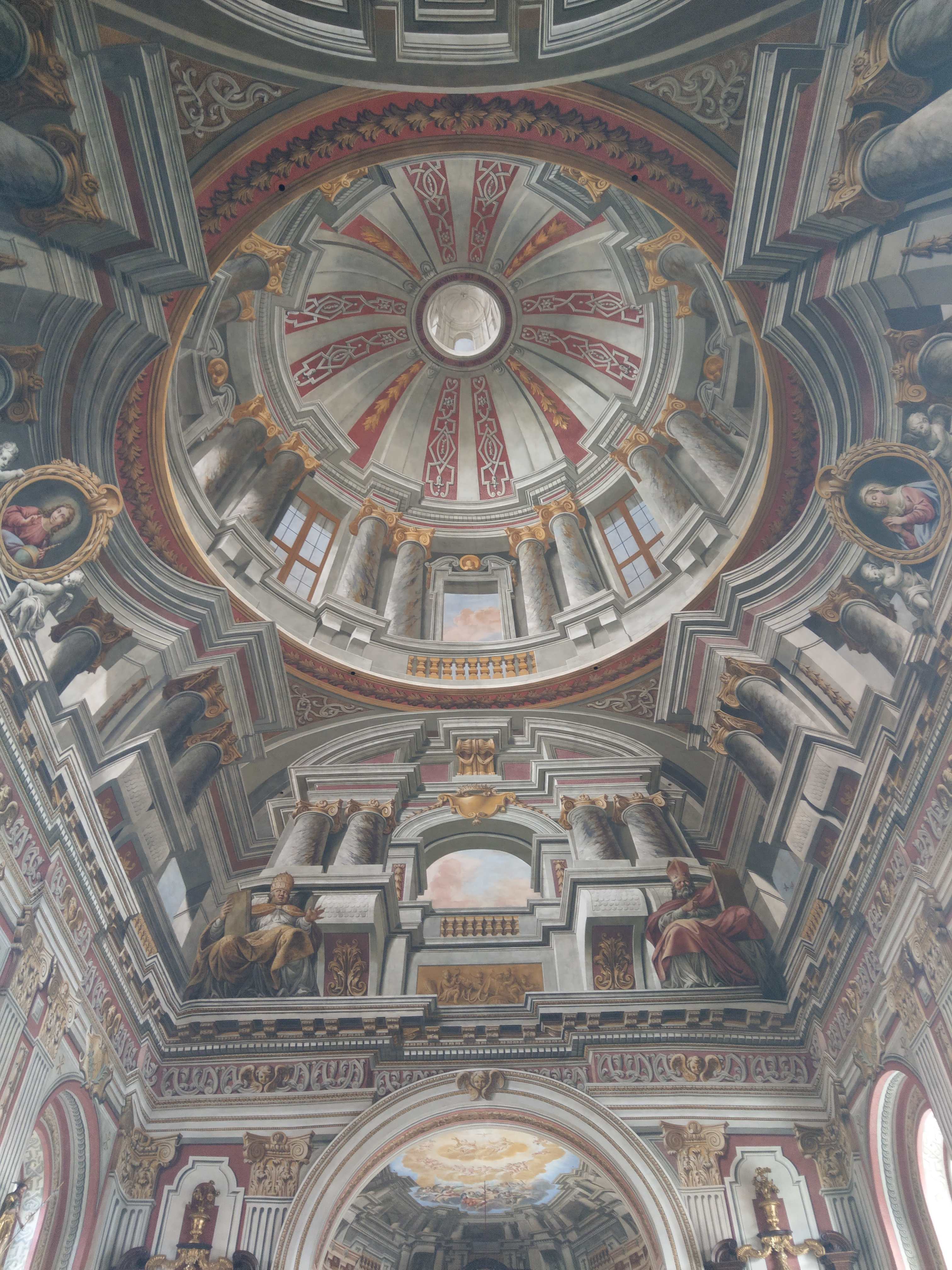 Ceiling of St. Mauritius church at Wiesentheid, Germany